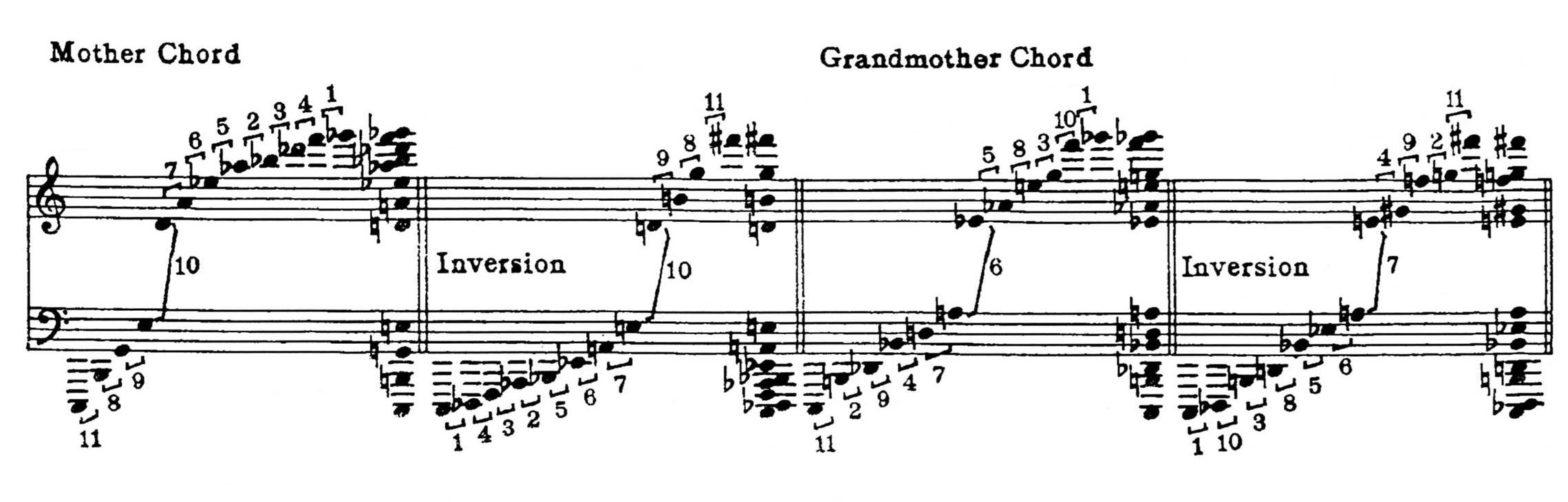 Mother chord, grandmother chord and their inversions. Image from Slonimsky, Nicolas (1975). Thesaurus of Scales and Melodic Patterns, p. 185. ISBN 0-8256-1449-X.